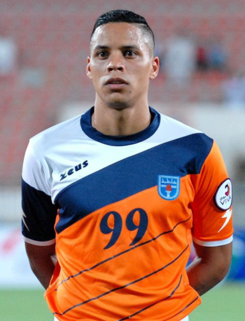 Patrick Fabiano posing for a picture with Kazma FC in a match against Qadsiya FC. 23 August 2014 Al-Sadaqua Walsalam Stadium Photographer email id